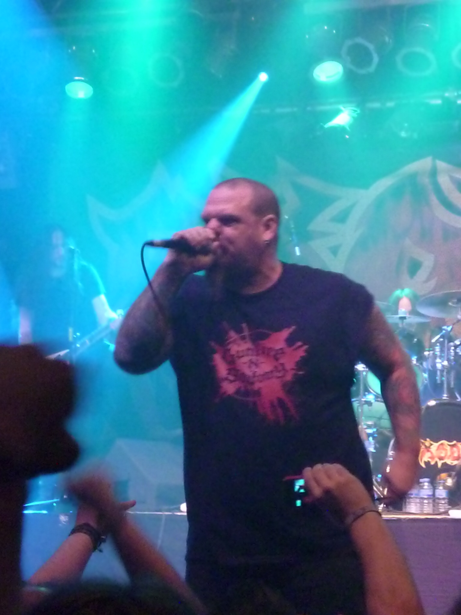 Rob Dukes live at the Thrashfest 2011 (Garage Saarbrücken)